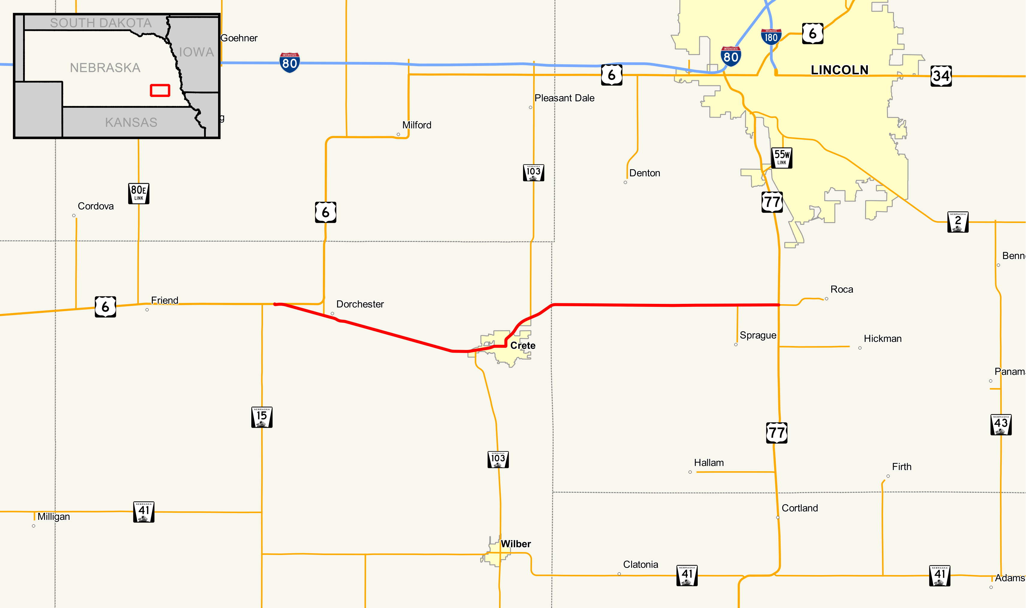 Map of Nebraska Highway 32 Data Sources: Nebraska Highways - - Dec 2016 Nebraska County Boundaries - - Dec 2016 Nebraska City Boundaries - - Dec 2016 This PNG graphic was created with QGIS